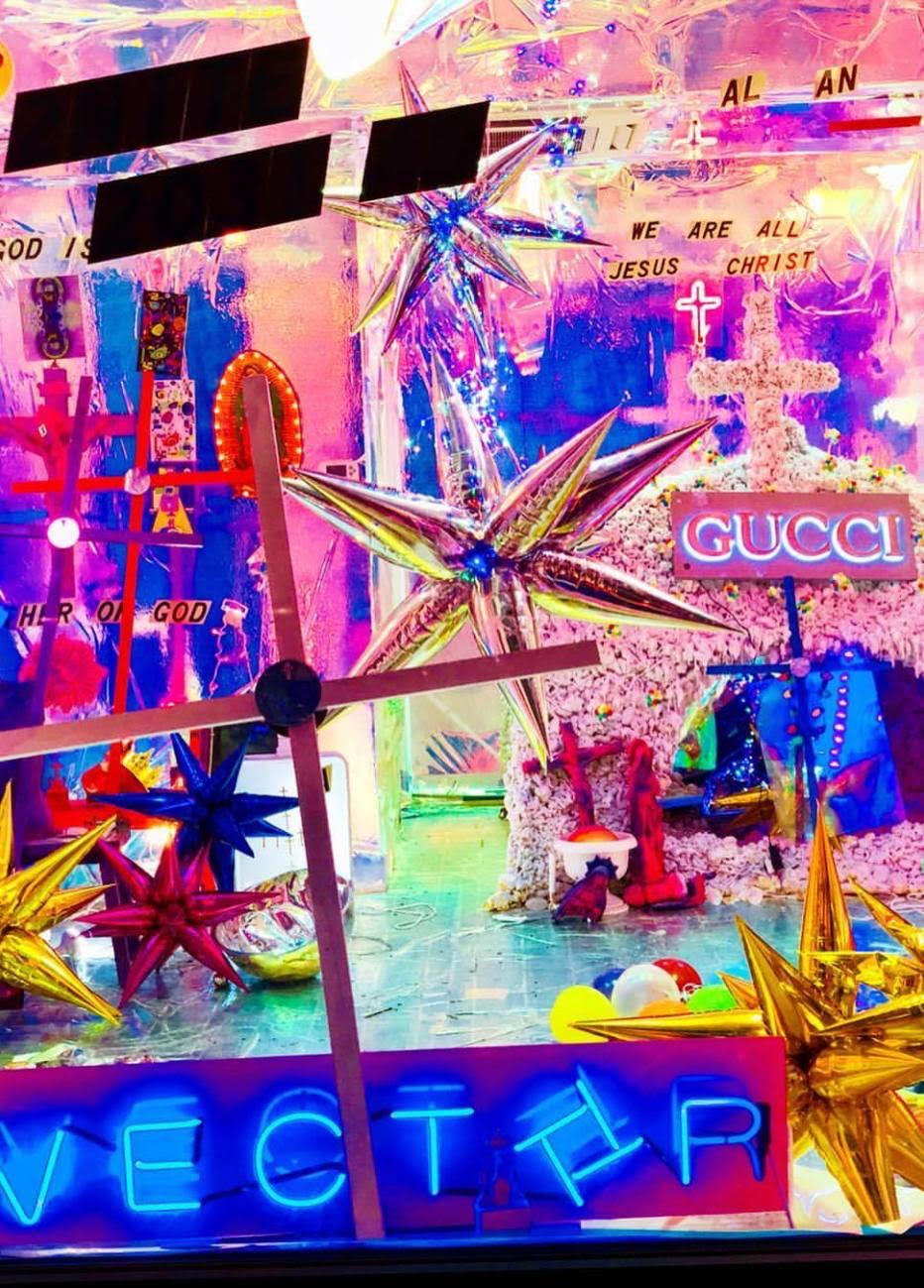 2018 photograph of JJ Brine's Vector Gallery